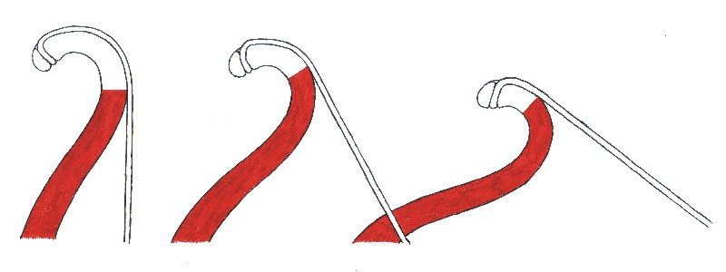 Function of an static Recurve (Bowtip).